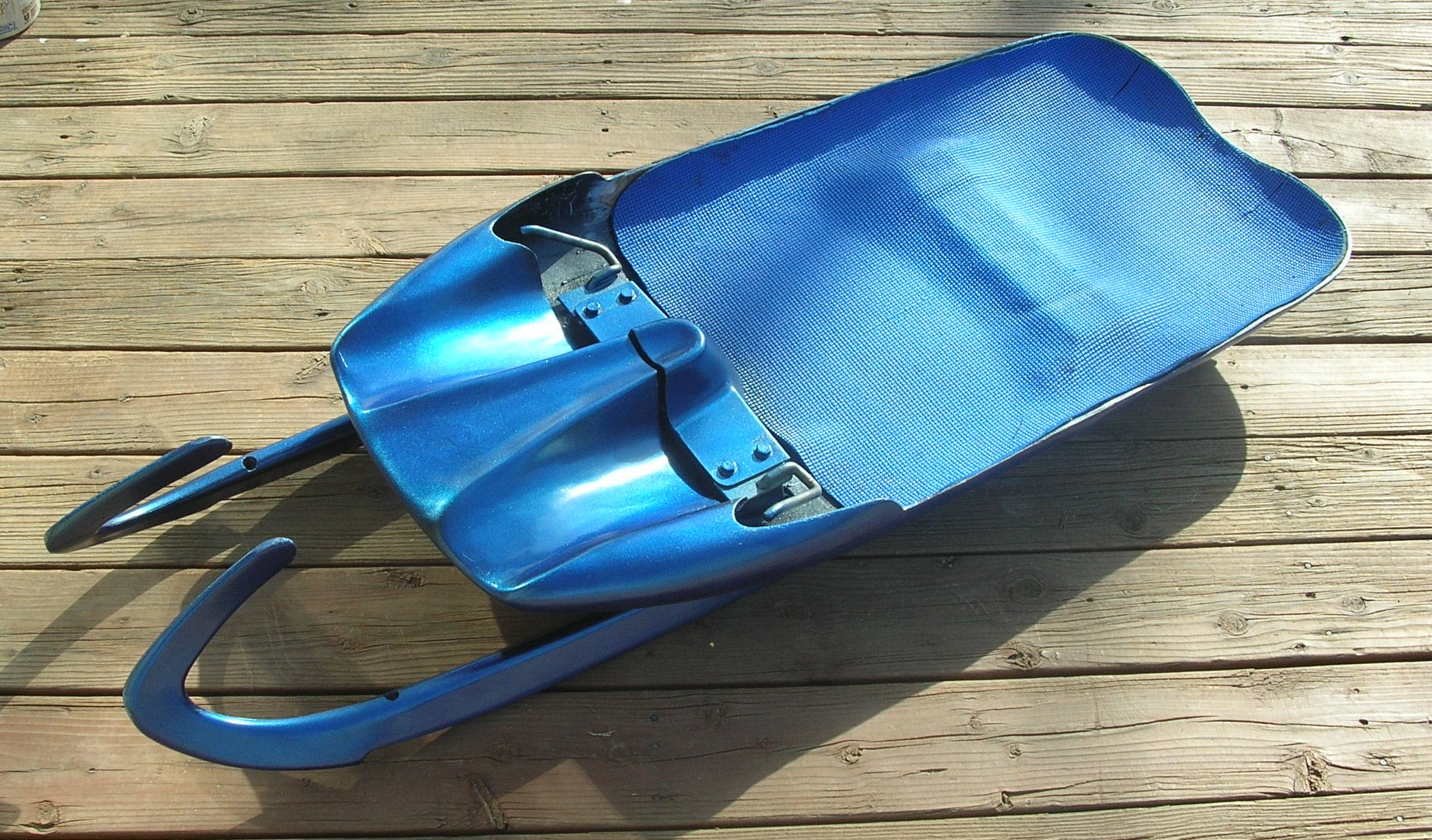 This is a luge sled